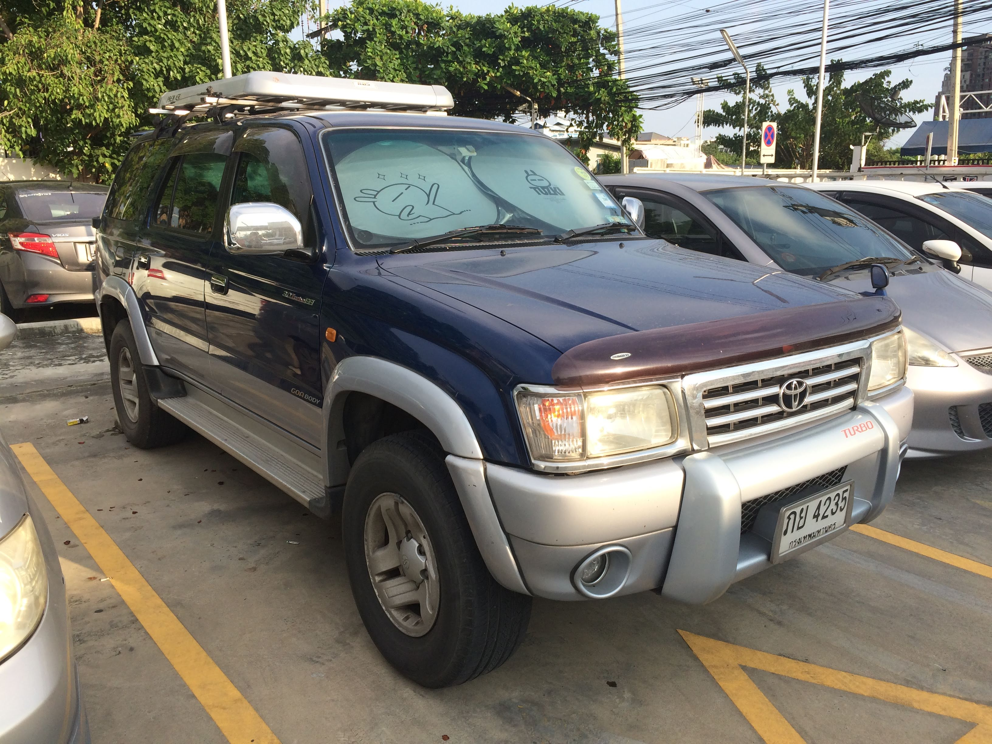 Toyota HiLux Sport Rider in Thailand.